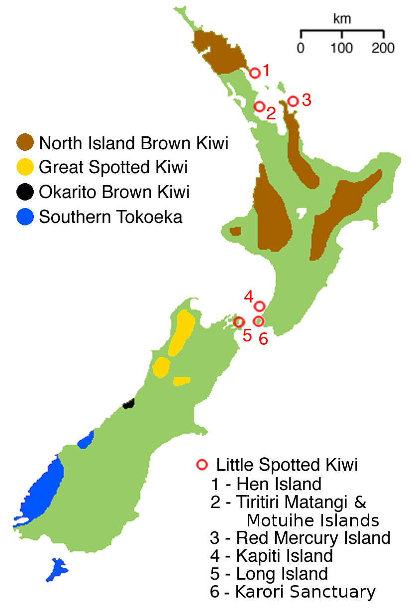 Map showing distribution of kiwi species Apteryx mantelli (Brown) Apteryx haastii (Yellow) Apteryx rowi (Black) Apteryx australis (Blue) Apteryx owenii (Red circle)